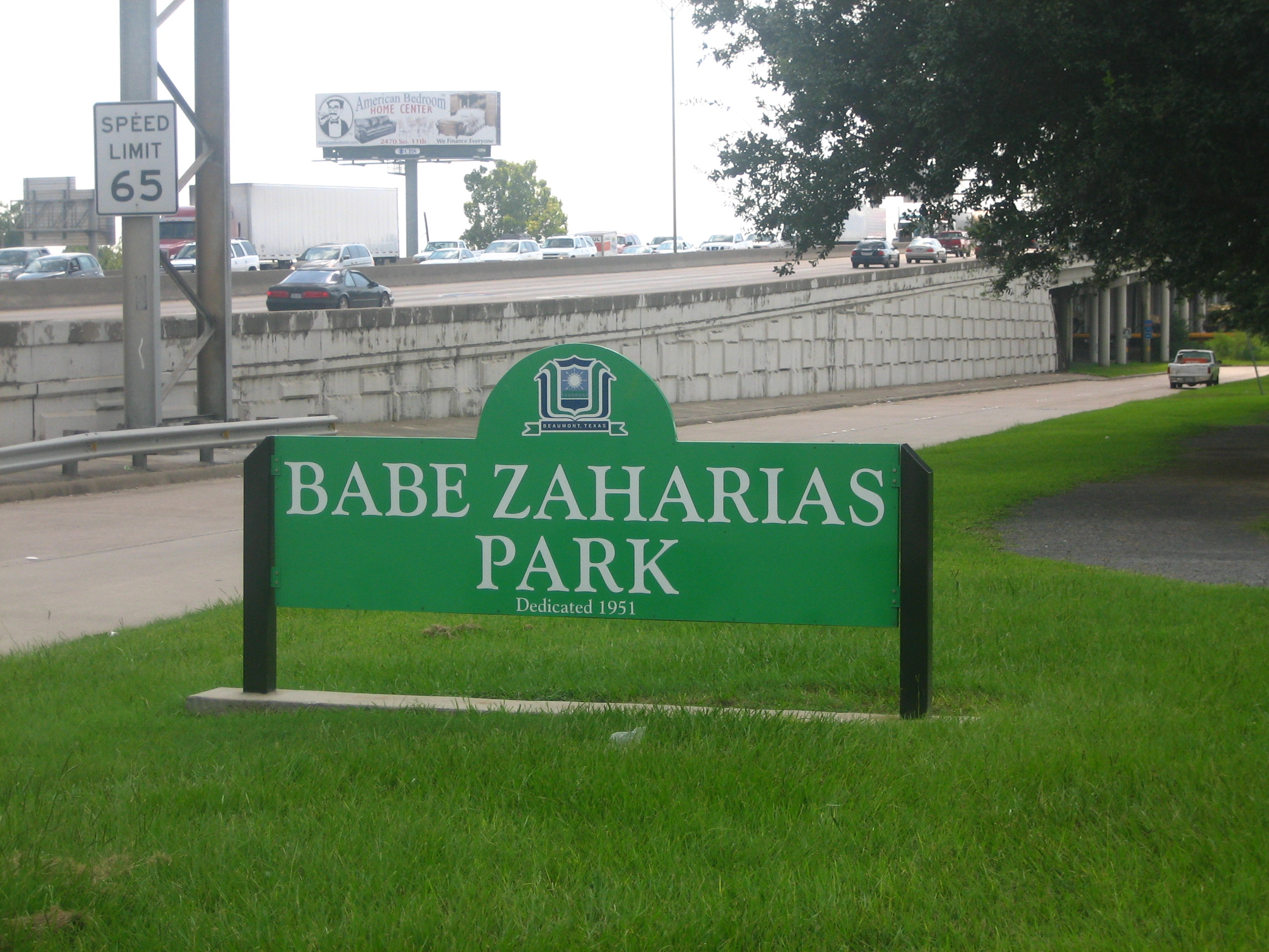 Babe Zaharias Park, adjacent to The Babe Didrikson Zaharias Museum, in Beaumont, Texas, United States.